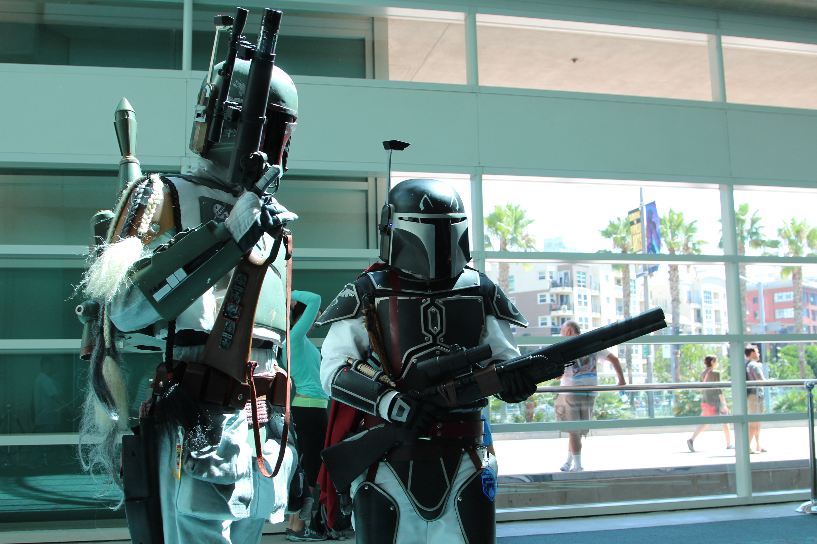 Cosplay at San Diego Comic Con 2014.